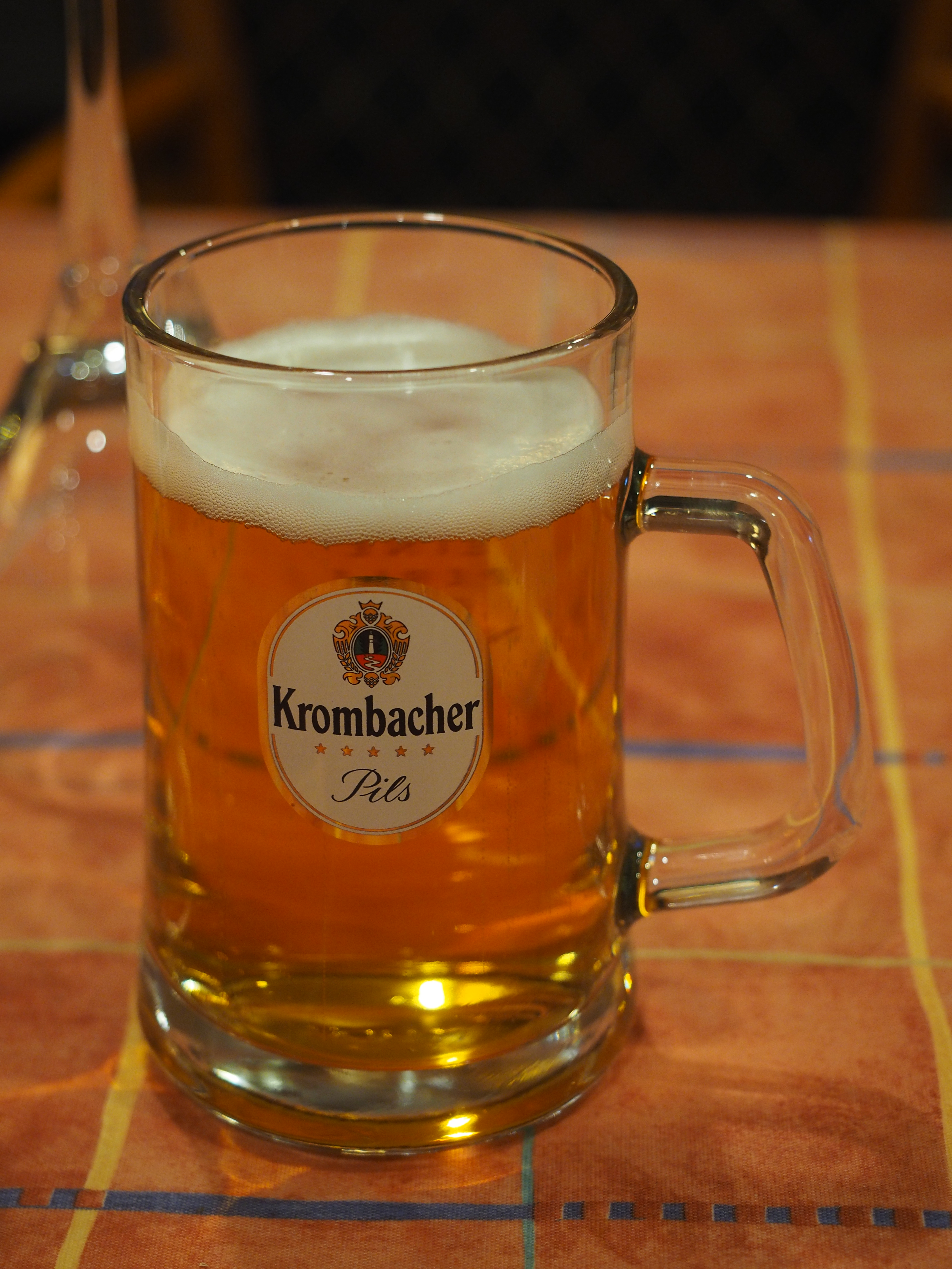 A glass of Krombacher Pils served at restaurant E.T.Charlie in Haukilahti, Espoo, Finland.